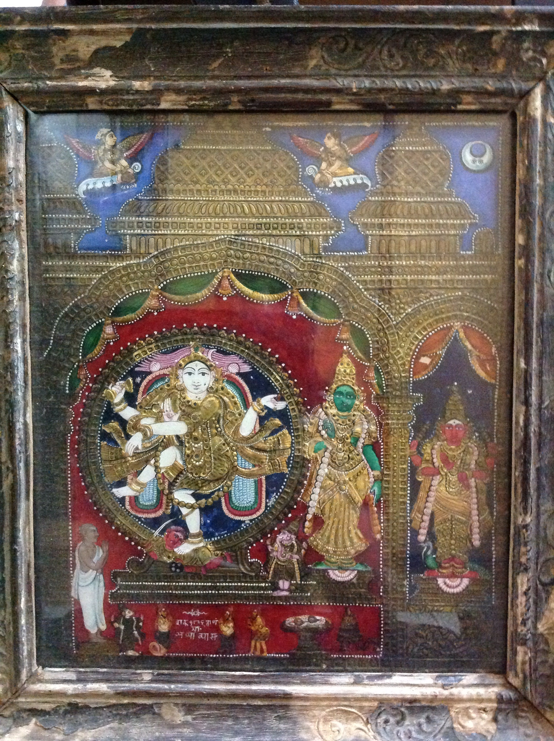 A Tanjore painting of Natarajar flanked by Sivakami